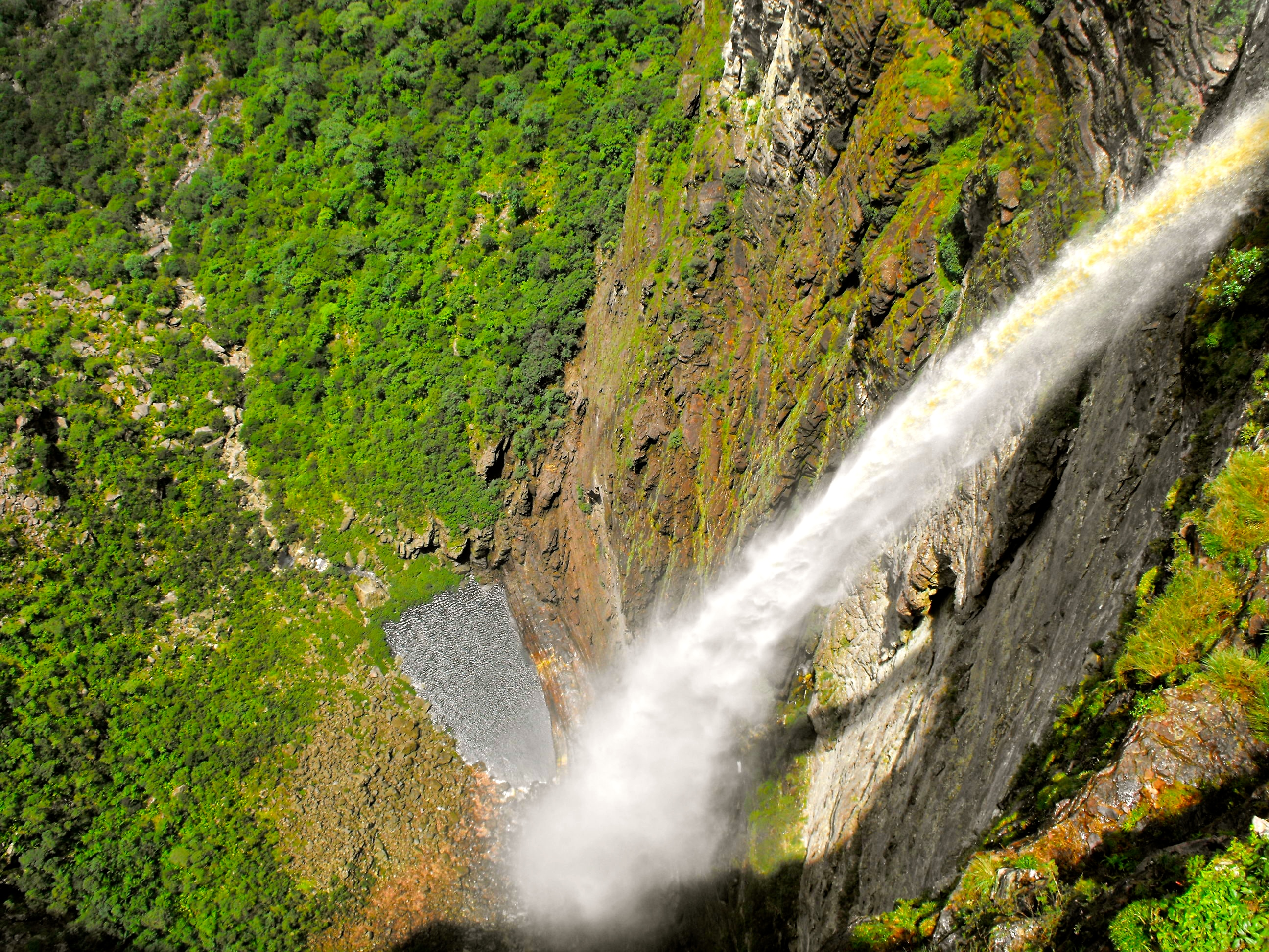 Fumaça Waterfall / Smoke Falls